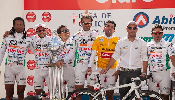 Brazilian Cycling Team Funvic-Pindamonhangaba in the Vuelta del Uruguay 2012. Left to right: Flavio Cardoso, Roberto Pinheiro, Antonio Nascimento, Gregory Panizo, Magno Nazaret, Benedito Jr (DT) y Hector Aguilar